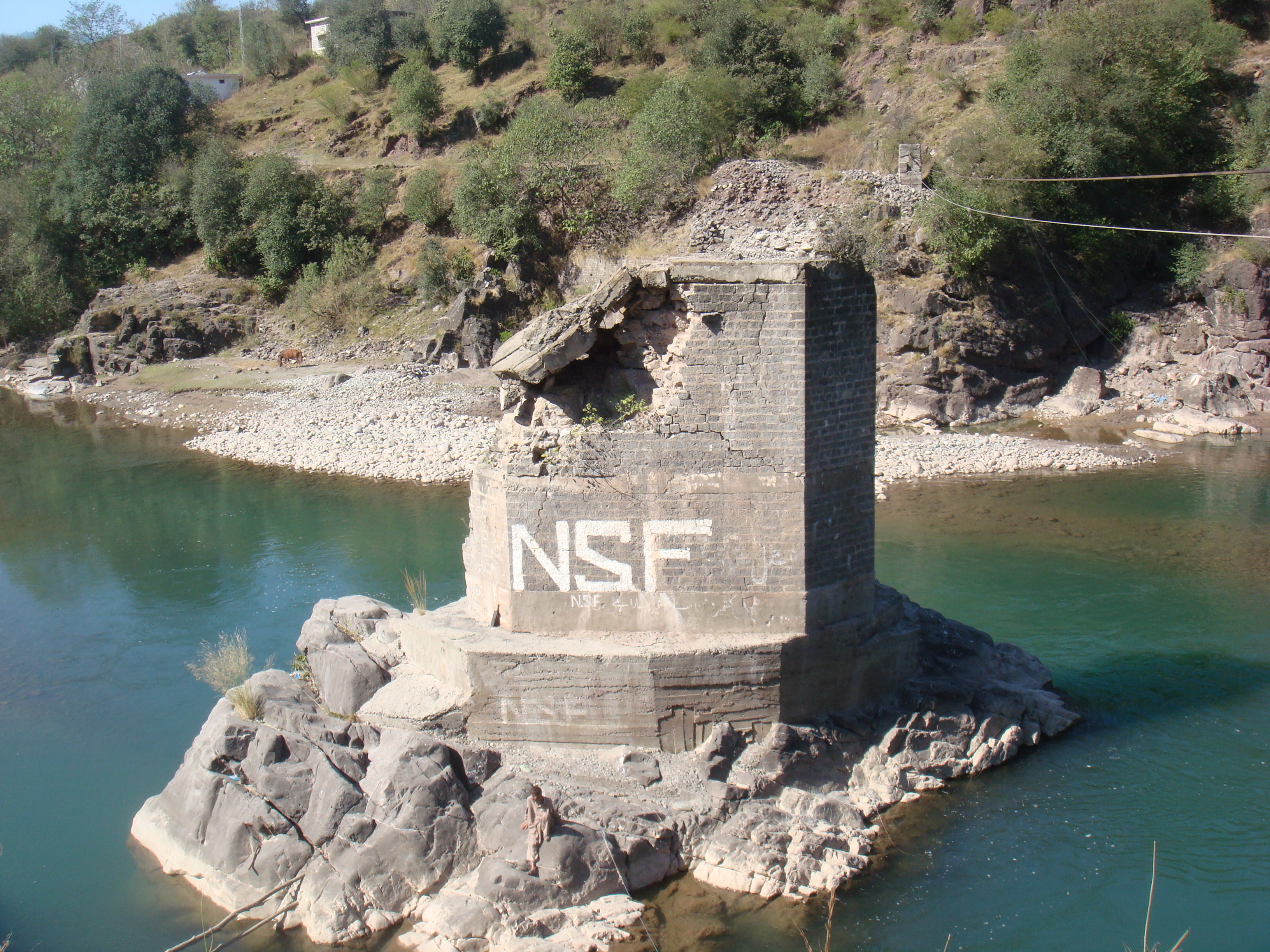 Destroyed Bridge linking Madapur to Mehndla on the LOC, in Poonch district, Azad Kashmir.